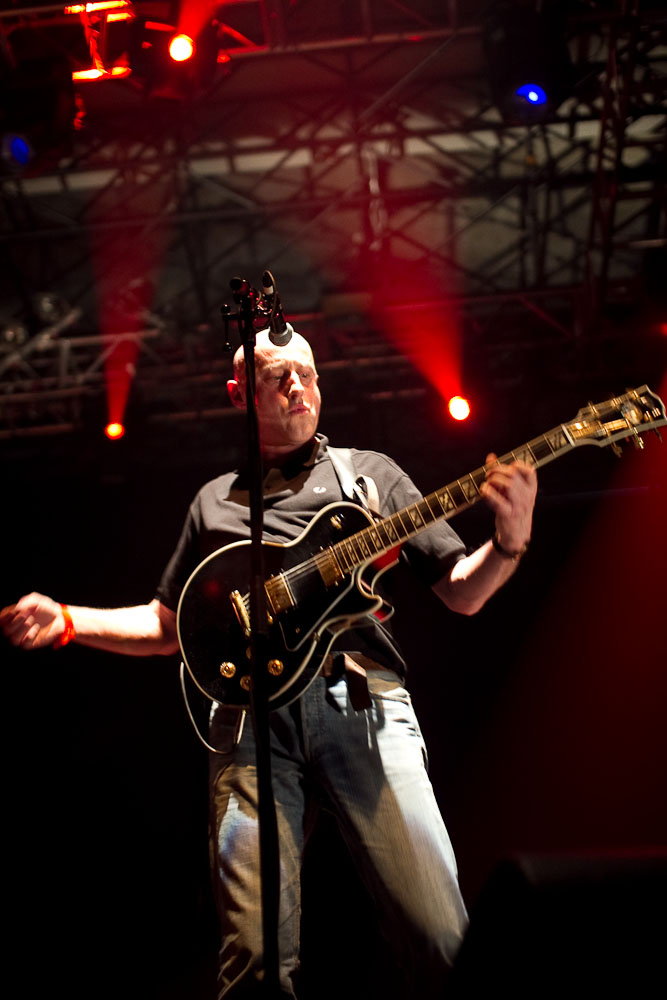 Wanted Festival - Ilegales - Jorge Martínez - Zaragoza 2010